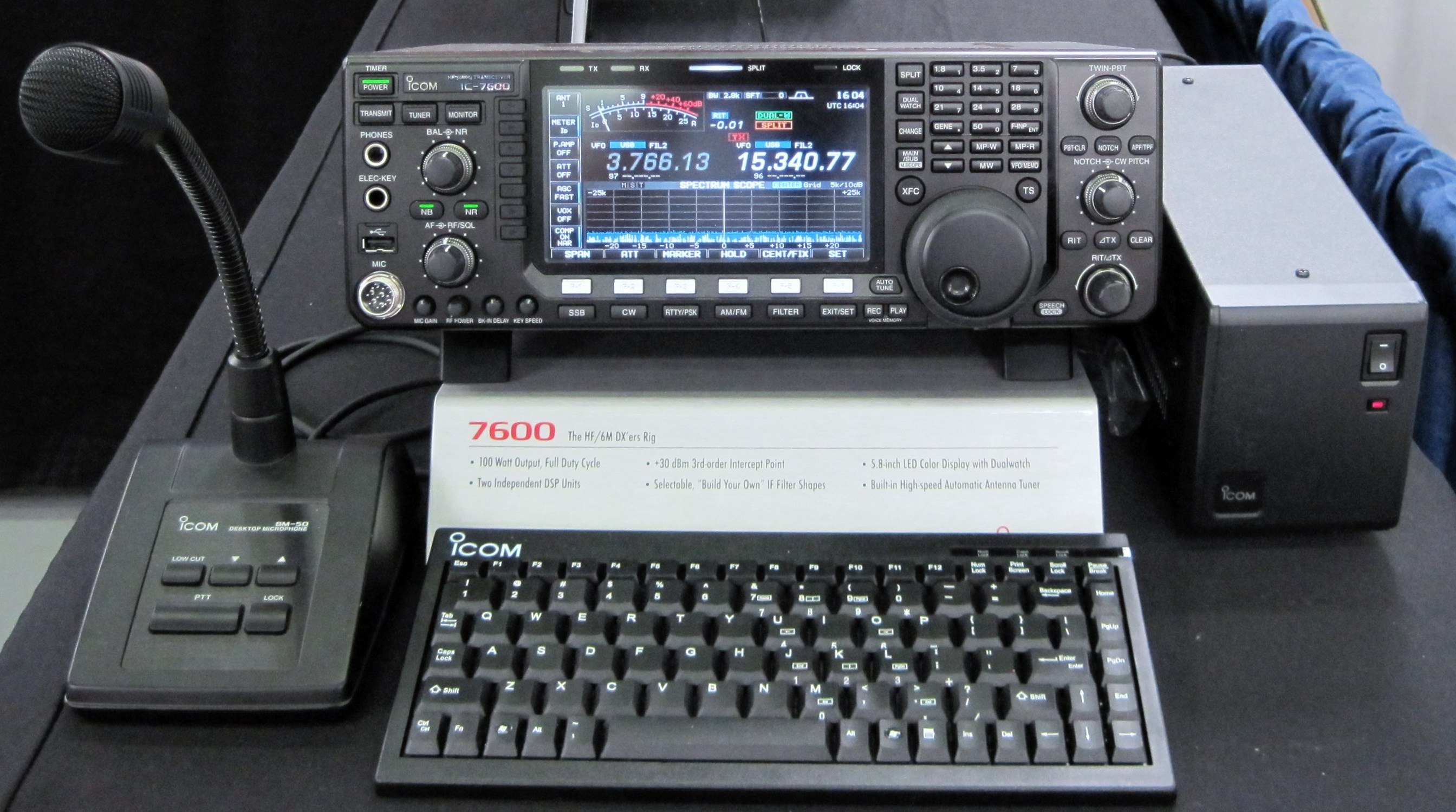 Icom IC-7600 HF+6m transceiver with SM-50 desktop microphone, power supply (right) and keyboard